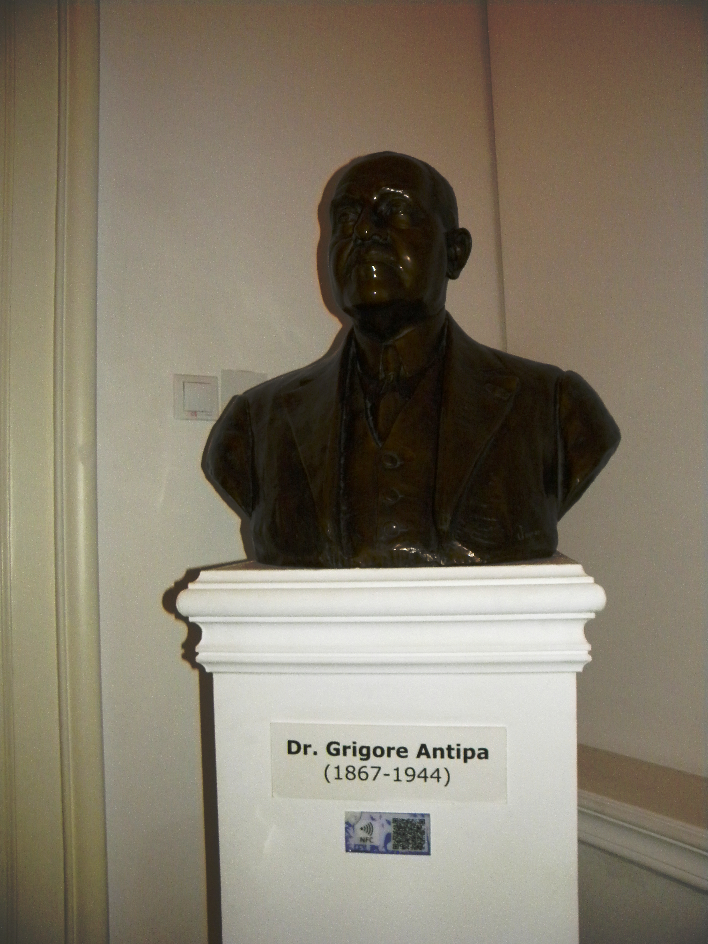 Grigore Antipa National Museum of Natural History. Dr. Grigore Antipa bust. A very great Scientific Roumanian Man.